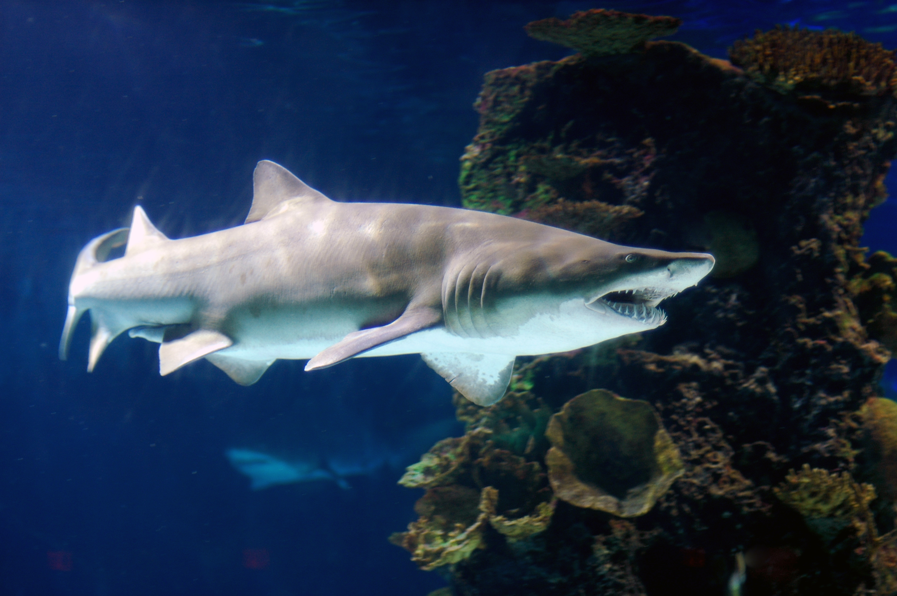 Sand tiger shark (Carcharias taurus) at the Newport Aquarium - Kentucky.